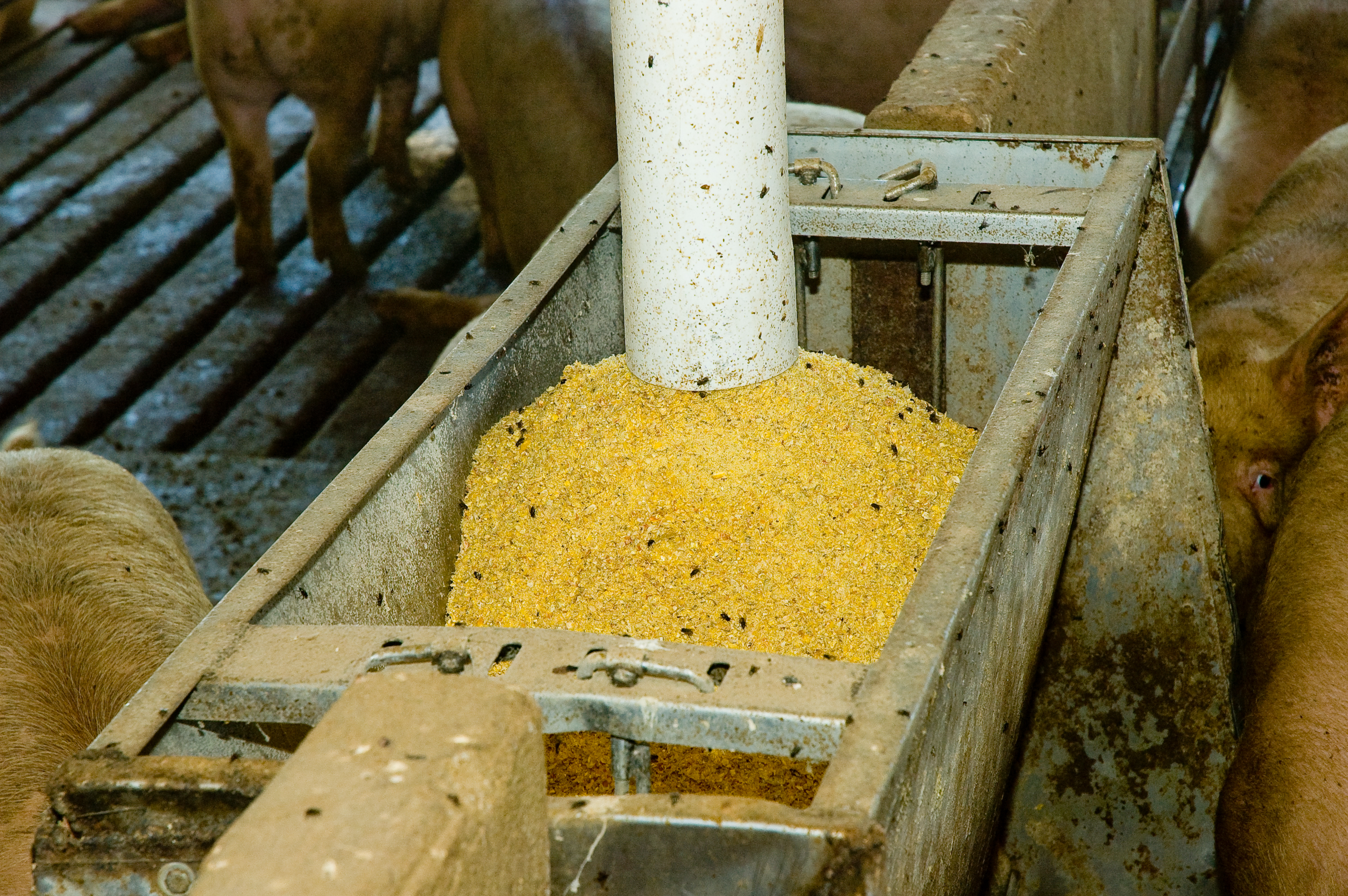 If used, credit must be given to the United Soybean Board or the Soybean Checkoff.